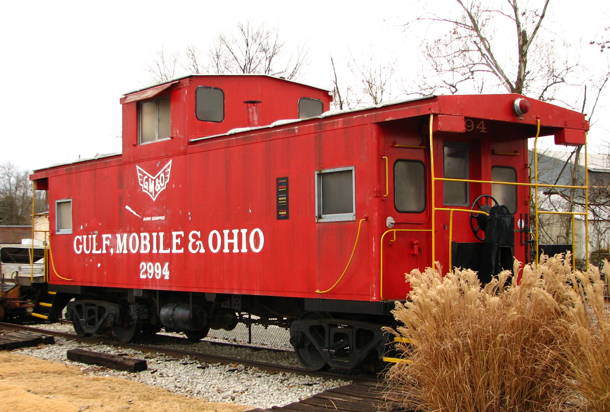 It's not hard to find references to Gulf, Mobile and Ohio railroad in the towns along the two former mainlines in Mississippi. This caboose is at the famous crossroads in Corinth, MS.